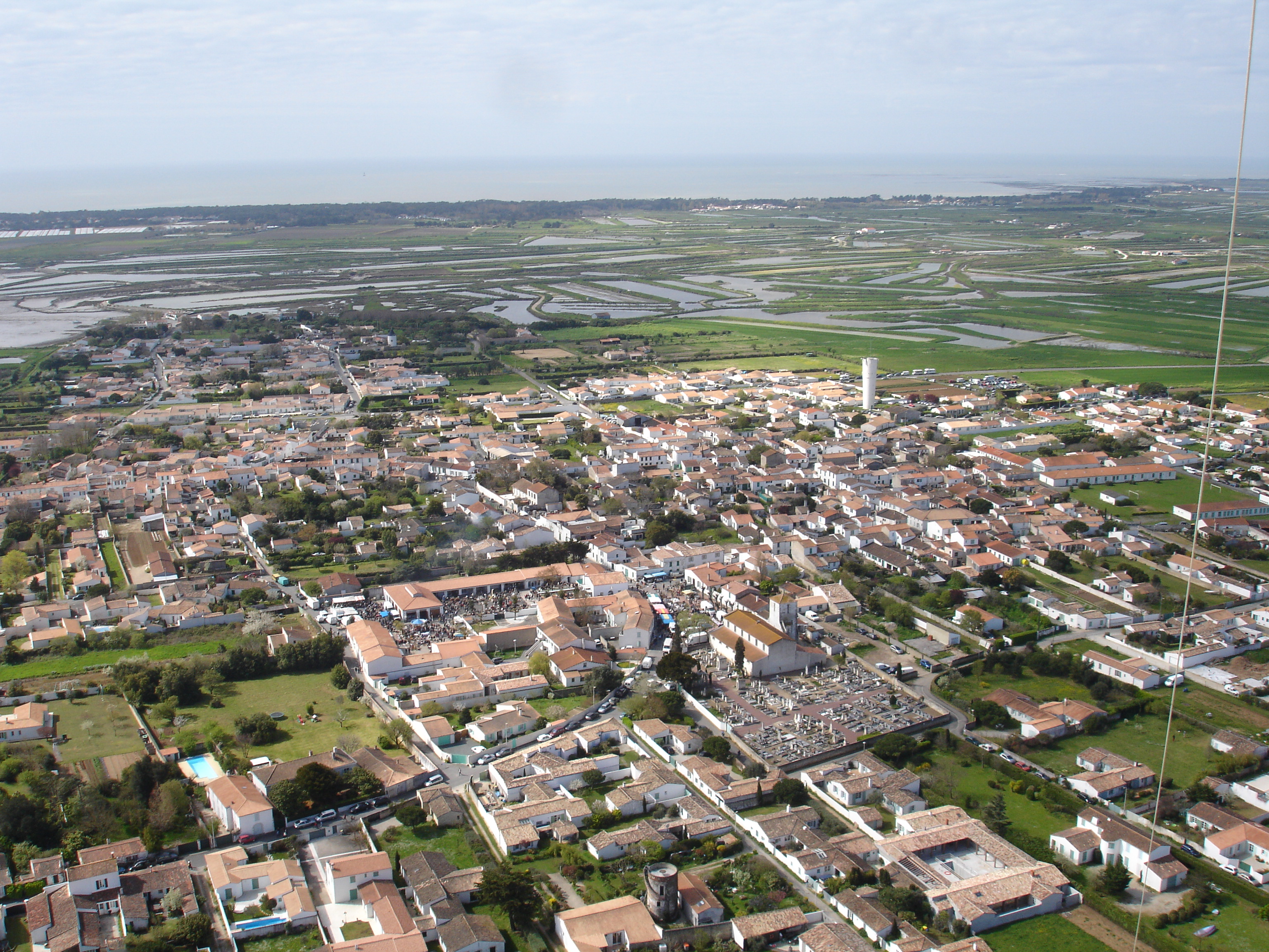 Aerial view of the village of Loix-en-Ré, Charente Maritime, France